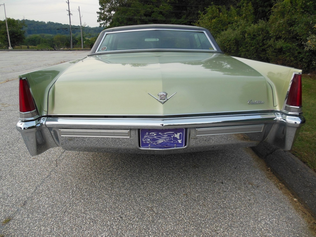 This is a picture of a vehicle (name of it is on the file name).